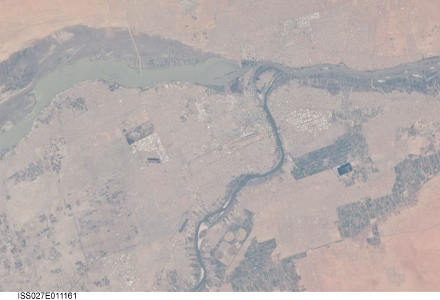 Astronaut Photo of Khartoum, Sudan taken from the International Space Station (ISS) during Expedition 27 on April 8, 2011.